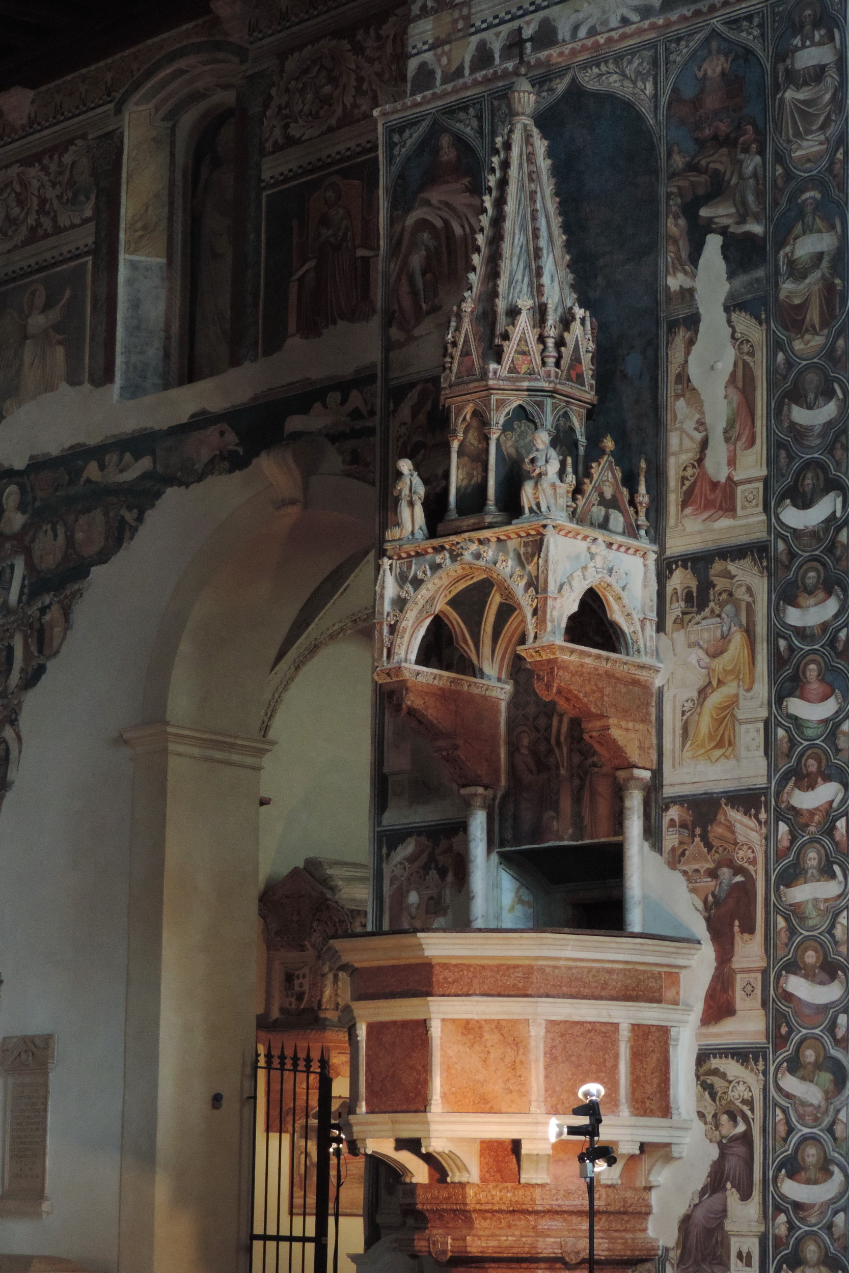 Pulpit of Chiesa di San Fermo Maggiore